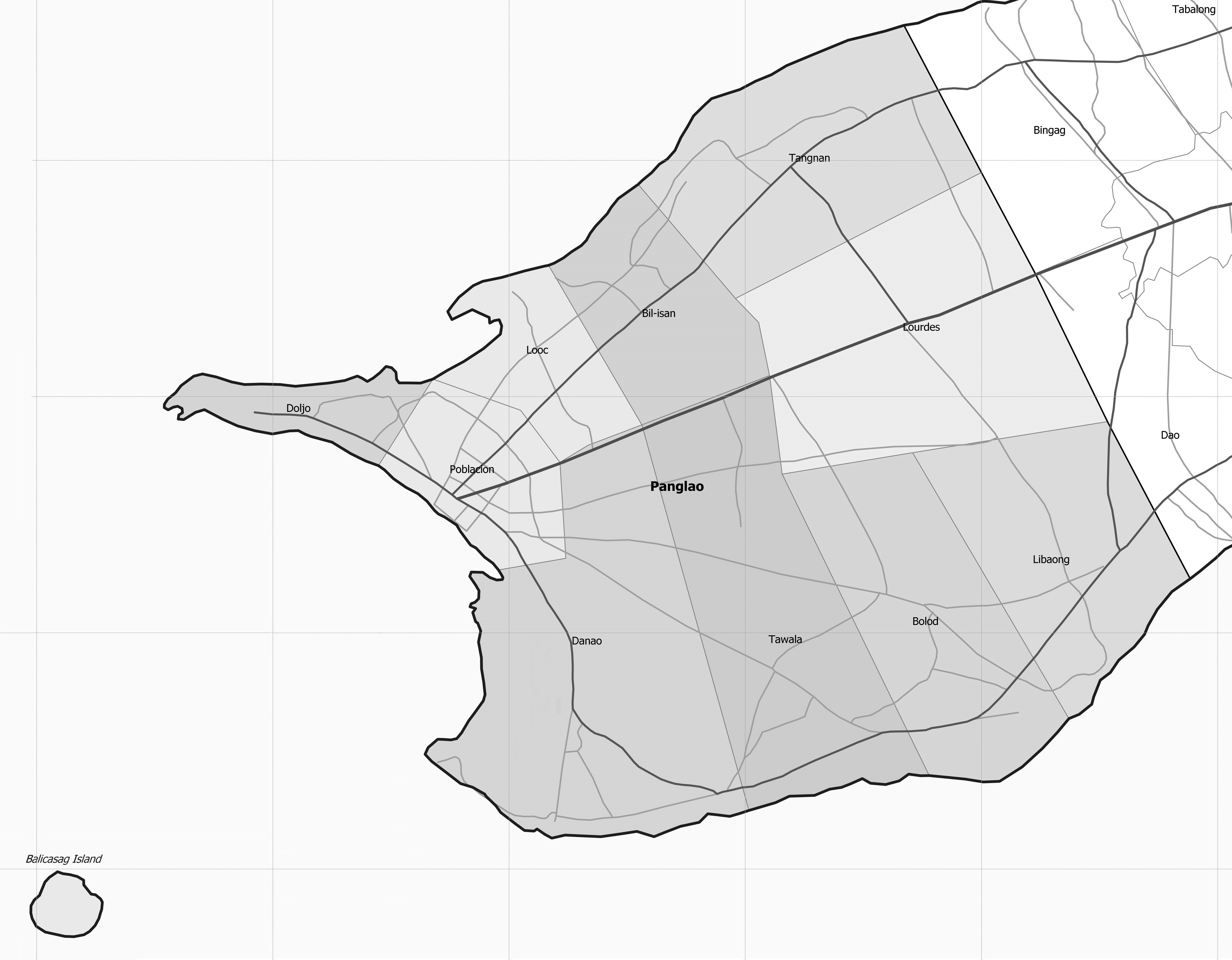 Detailed map of Panglao, Bohol showing barangays and islands